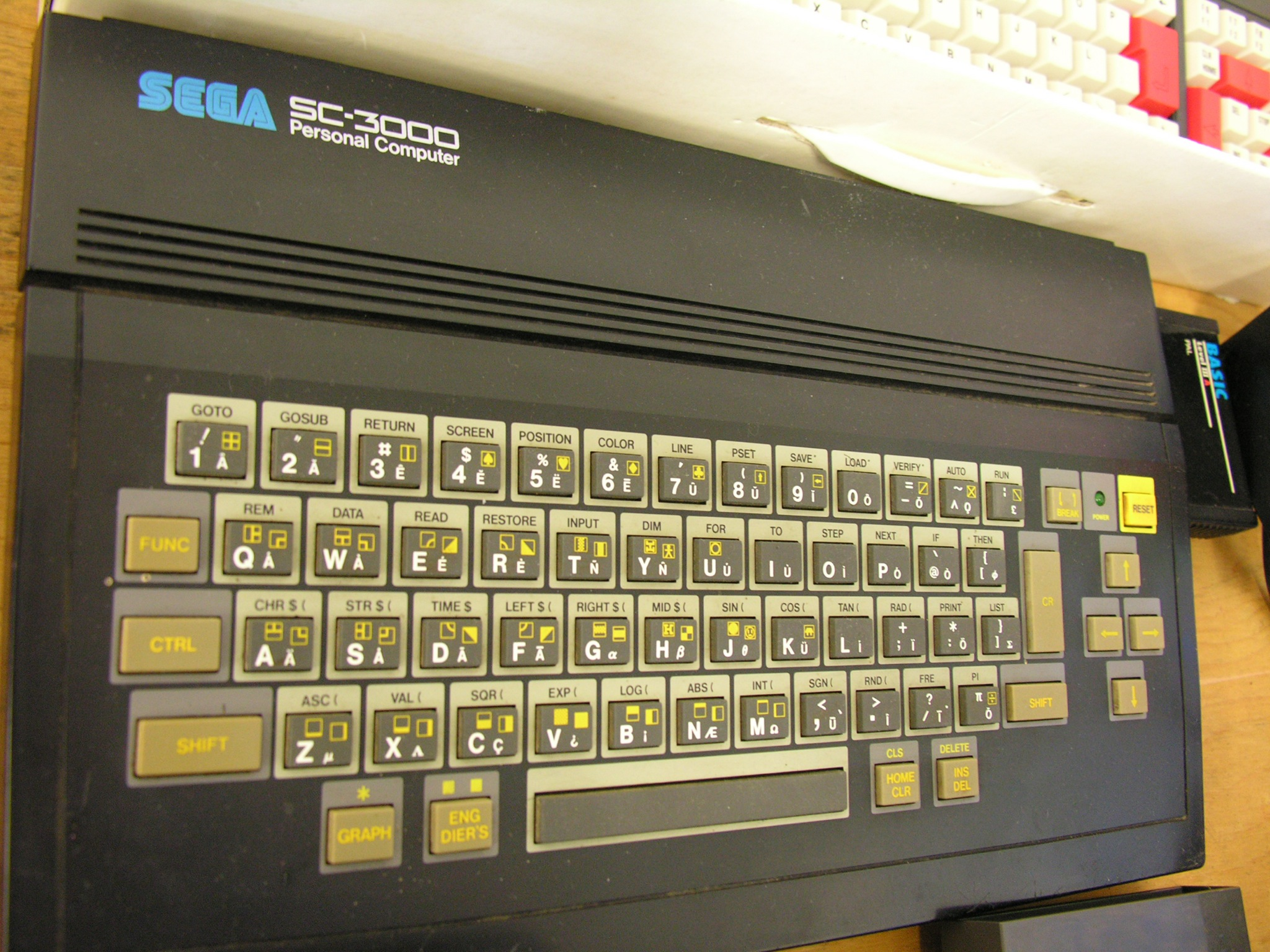 Sega SC-3000